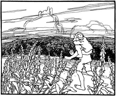 Illustration by Otto Ubbelohde to the fairy tale The Raven